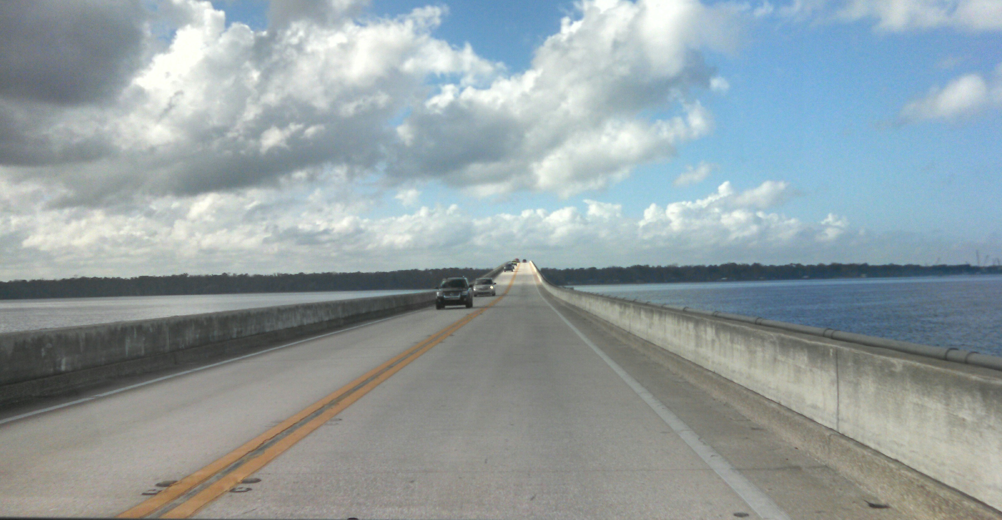 Westbound on Shands bridge - photo 1